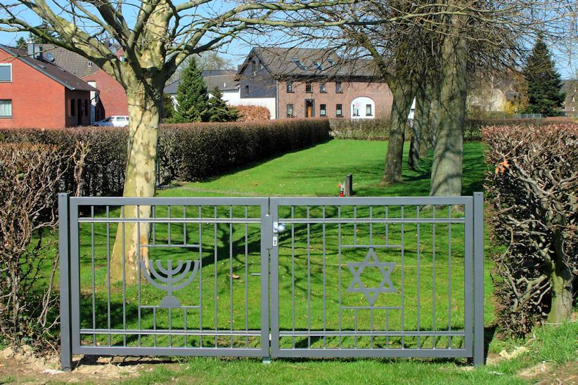 Historic Jewish cemetery in Erkelenz-Schwanenberg, Germany.